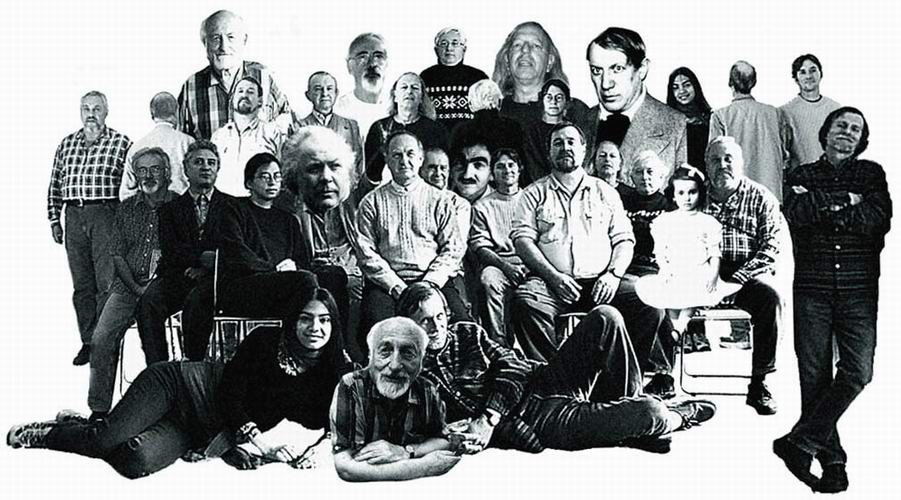 KOKSZ (Art Group of the Hungarian Satirical Fine Art and Caricature)